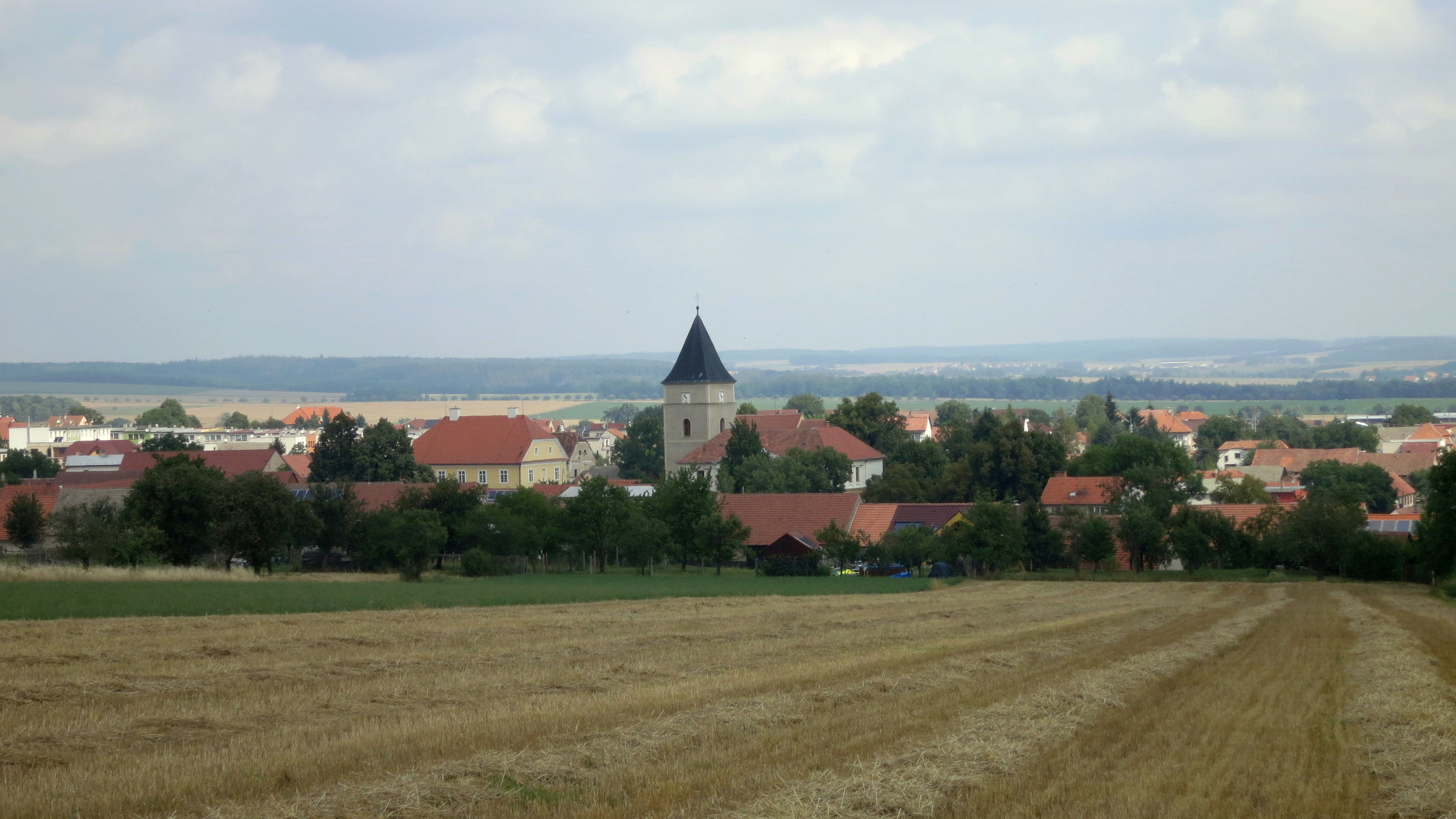 Mohelno, okr. Třebíč.